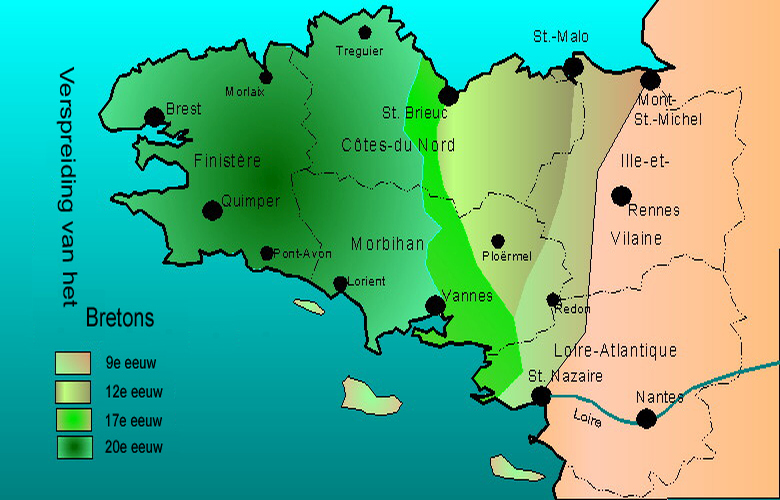 A map showing the decline and retreat of the Breton Language (in Dutch) From the German version, made by Mig de Jong